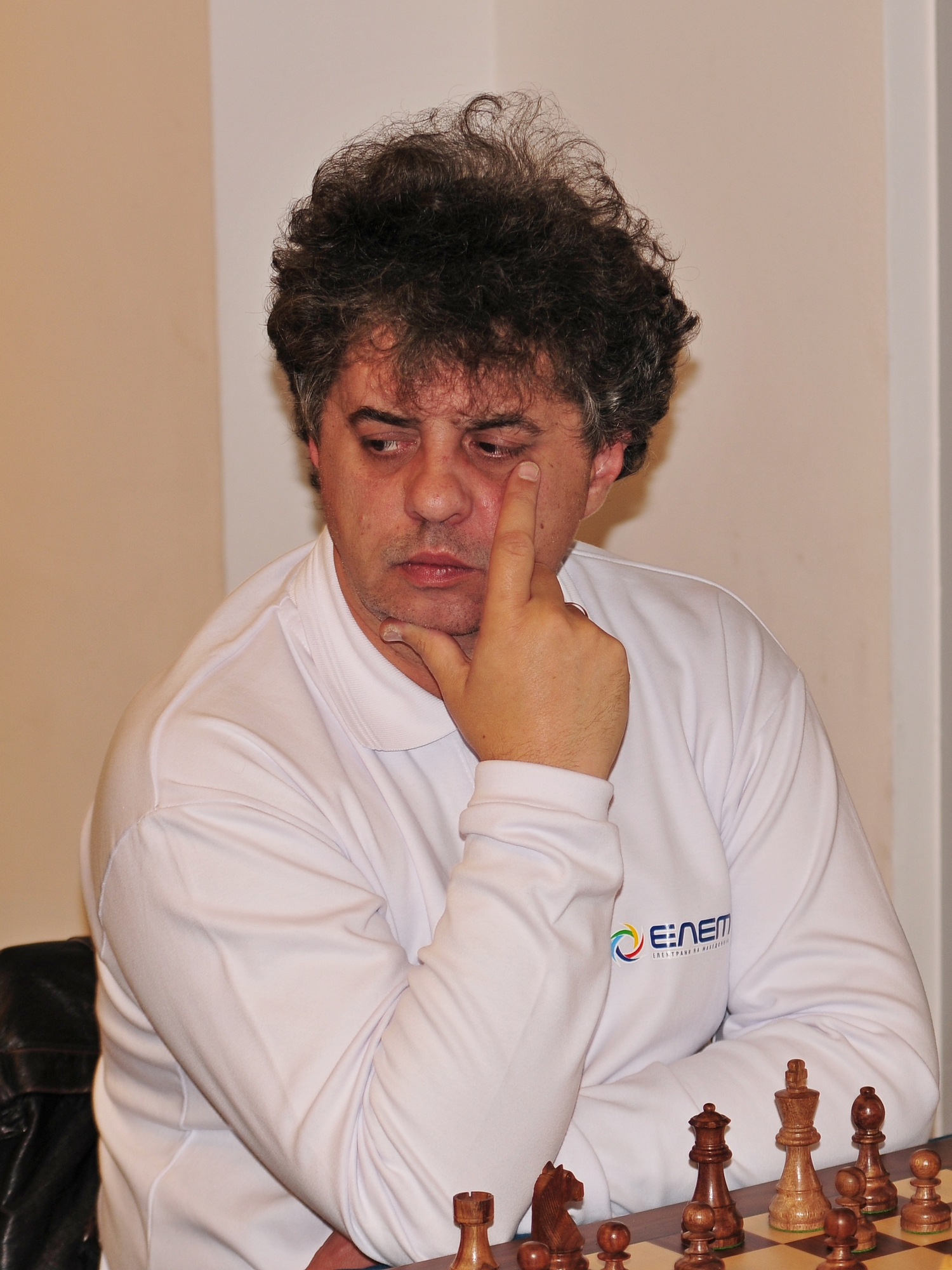 GM Dragoljub Jacimovic, European Chess Team Championship Warsaw 2013